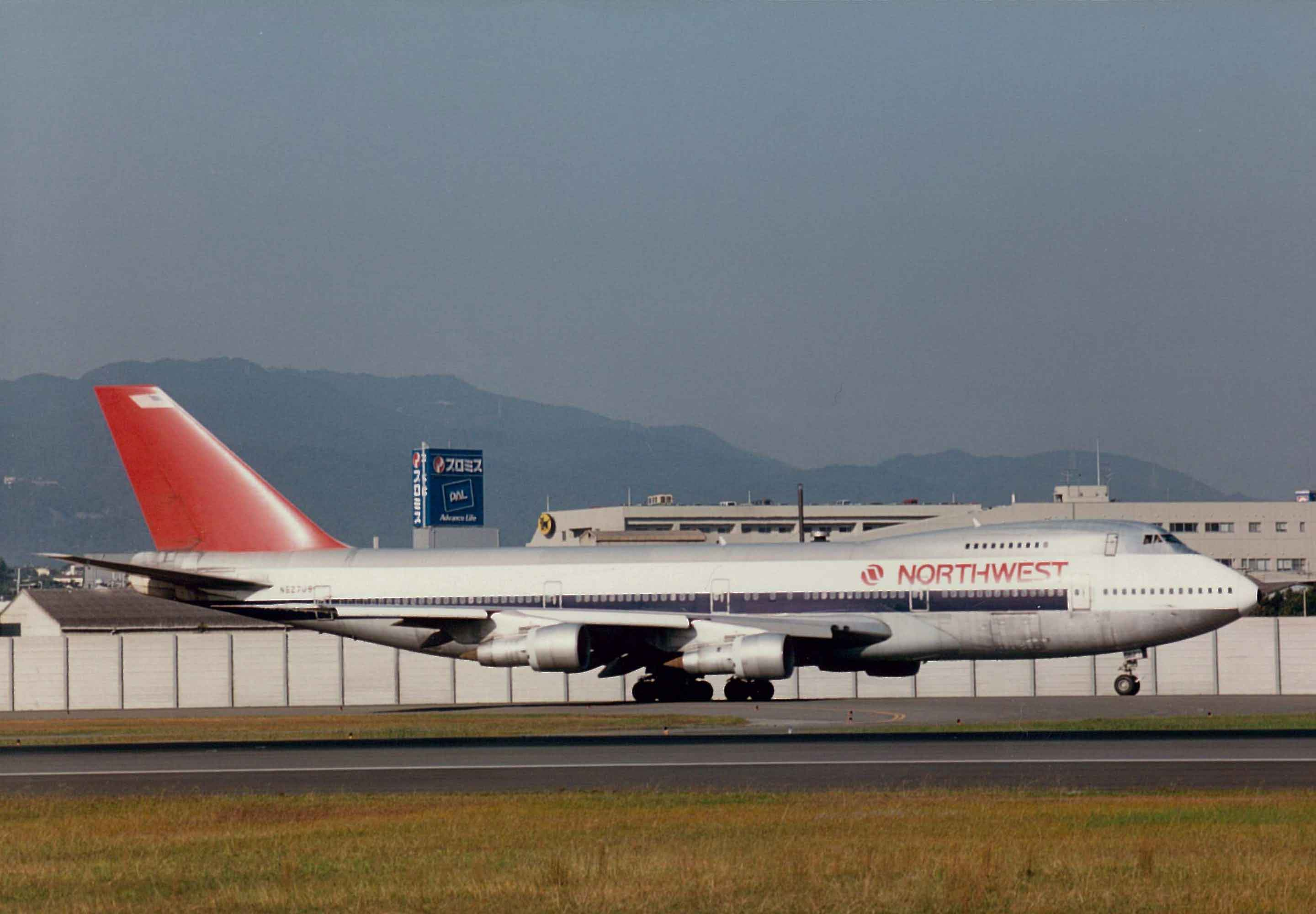 It is Airliners which it photographed in Itami, Osaka Airport.